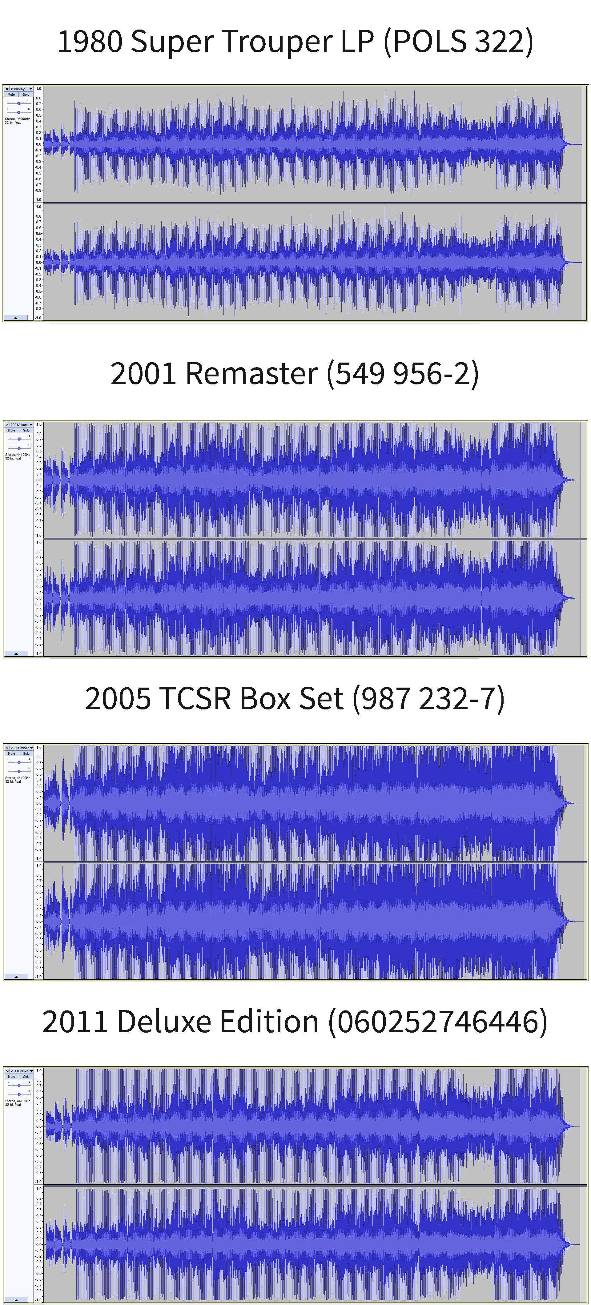 The song "Super Trouper" as shown on the major issues of the album, the 1980 Super Trouper LP, 2001 Jon Astley remaster, 2005 The Complete Studio Recordings box set disc 7, and 2011 Super Trouper Deluxe Edition remaster disc 1. The tracks were imported into Audacity, a free and open source audio editing program, screenshot and edited into one file with the titles and catalogue numbers of the releases shown. The font is Source Sans Pro, a free and open source font available from Google Fonts among other places. This is a shortened version of Media:ABBA_-_Super_Trouper_Title_Track_Remaster_Waveform_Comparisons.png for better use in Wikipedia articles or wherever else is needed because it better shows the drastic differences remasters can make in loudness.